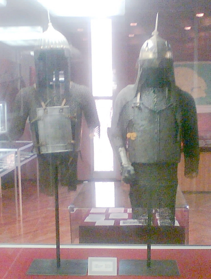 Mirror Armours, Зерцало, Шар-айна, XVIII century Almaty Museum (Kazakhstan)